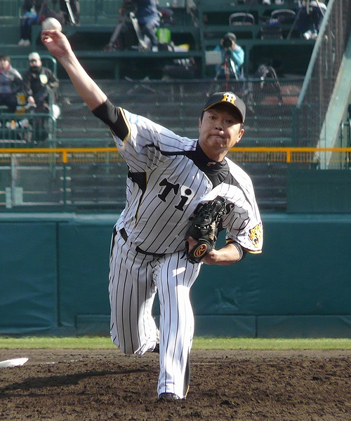 HT-Shinobu-Fukuhara20120313